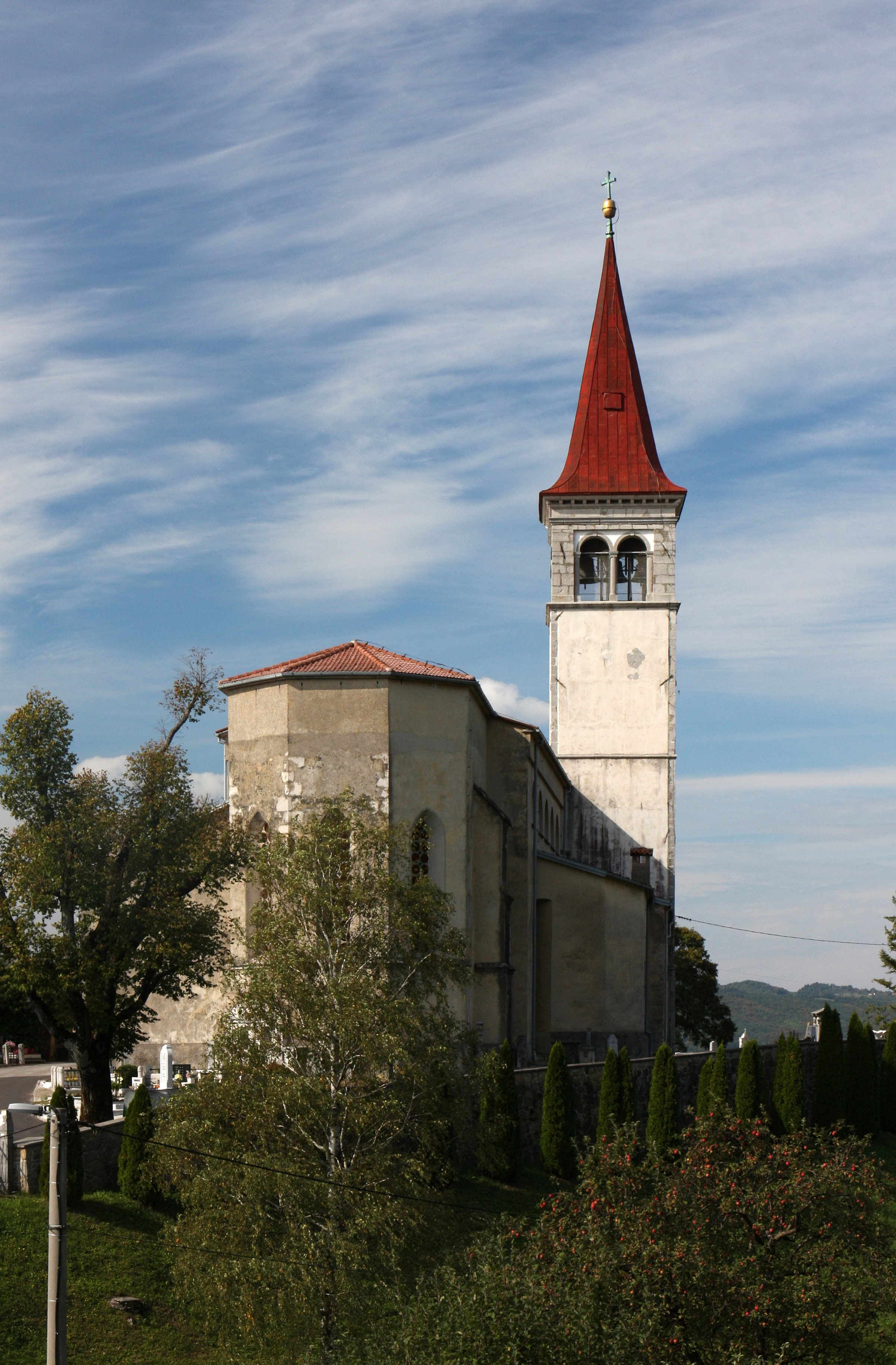 Parish church of St. Peter, Ilirska Bistrica, Slovenia.